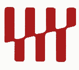 Four Thirds Logo.